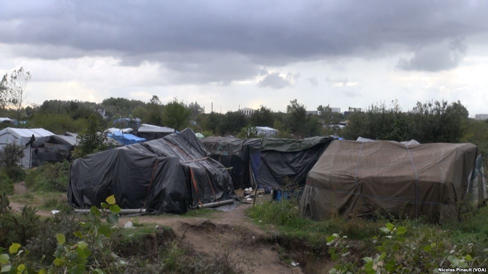 Calais "jungle" migrant/refugee camp in Oct. 2015